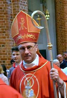 Wojciech Polak